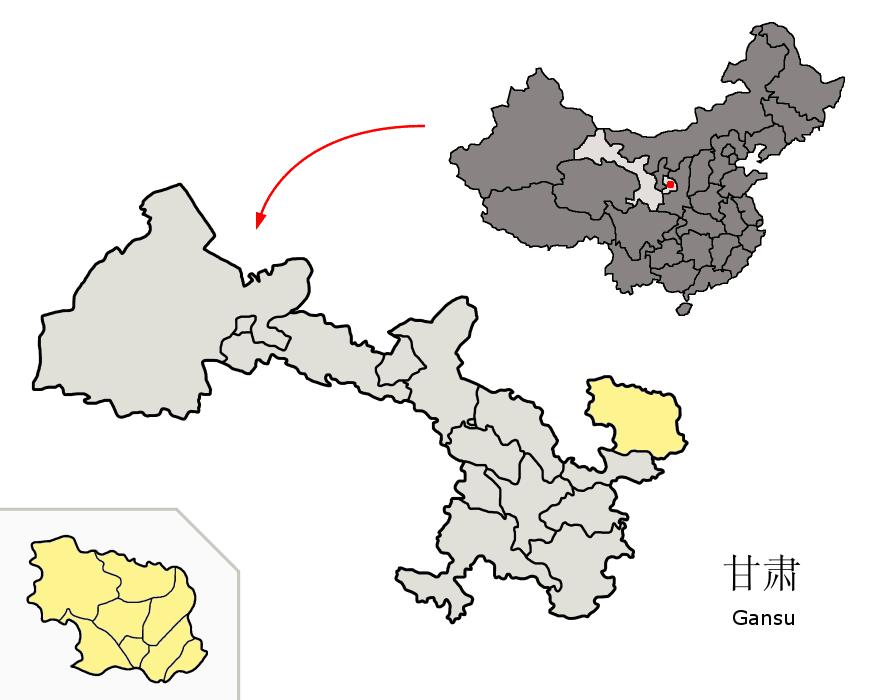 Location of Qingyang Prefecture (yellow) within Gansu province of China Map drawn in october 2007 using various sources, mainly : Gansu province administrative regions GIS data: 1:1M, County level, 1990 Gansu Counties map from